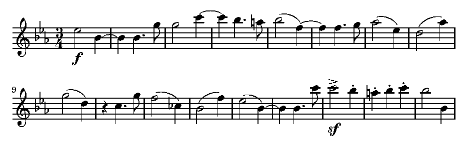 Main theme of the first movement in Schumann's symphony no.3, bars 1-17